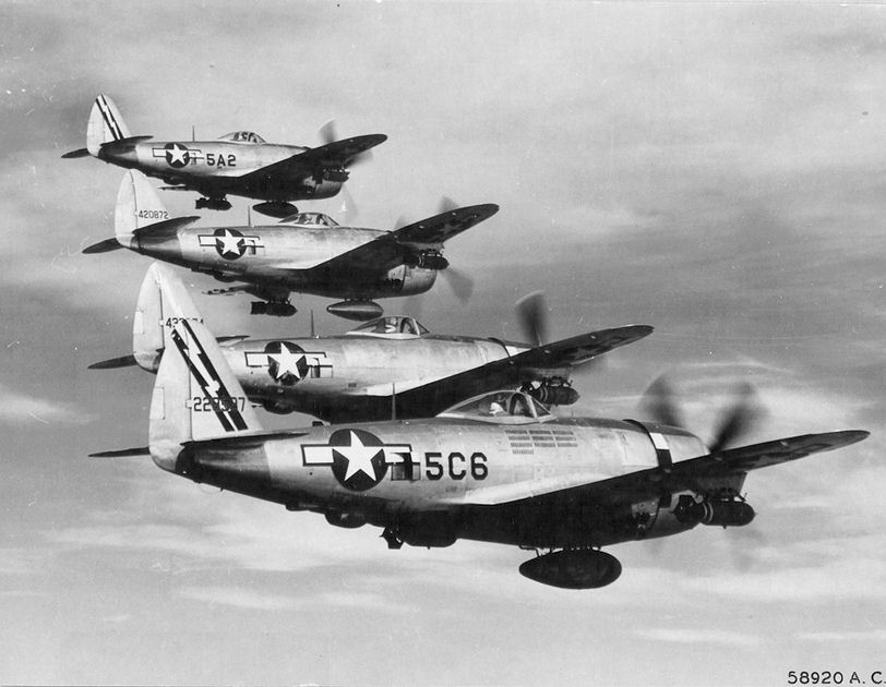 345th Fighter Squadron, 350th Fighter Group, 12th Air Force.